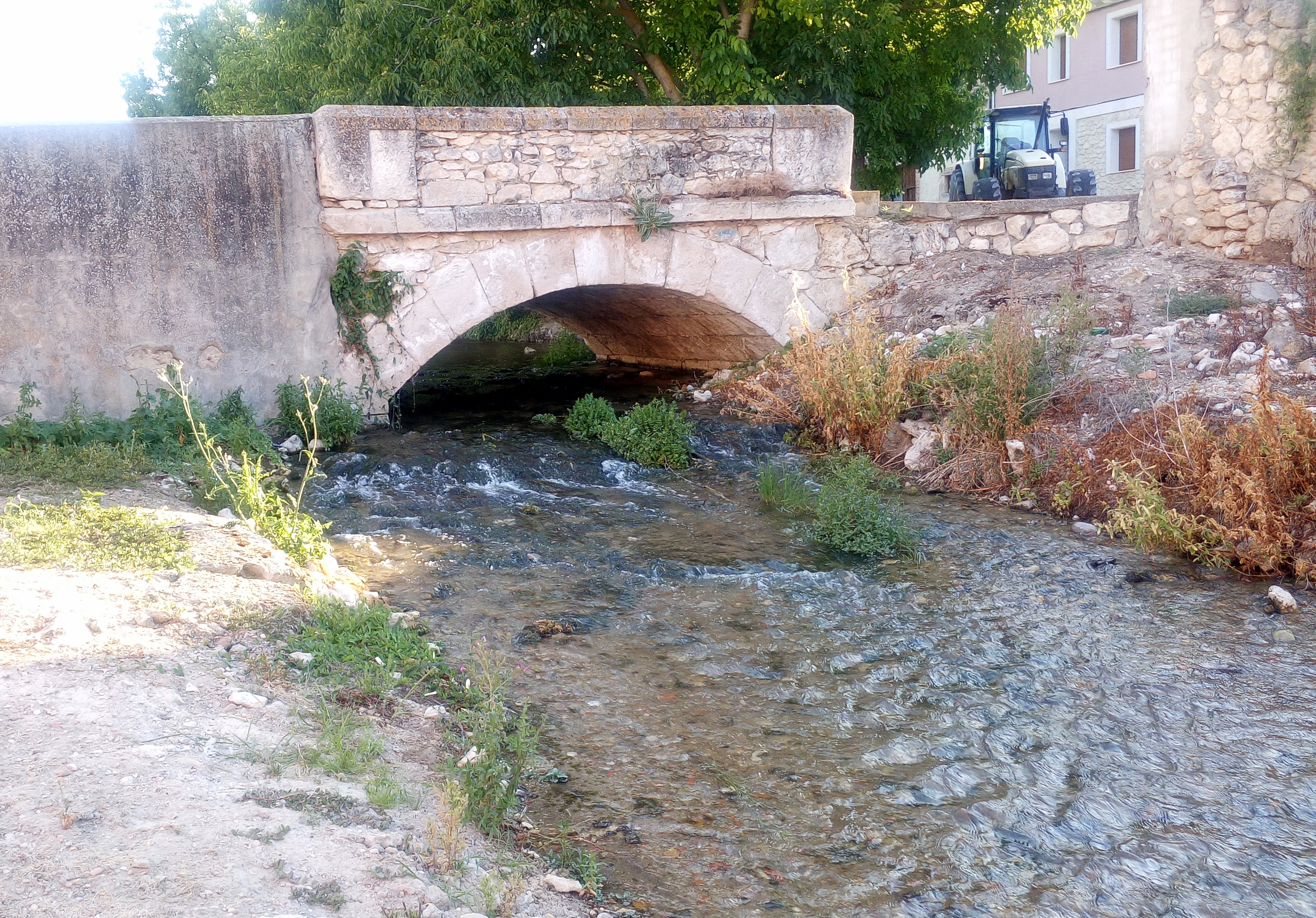 Bridge over La Hoz stream in Laguna de Contreras, Segovia, Spain.